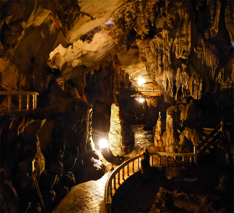 Tham Jang, Vang Vieng, Vientiane Province, Laos.